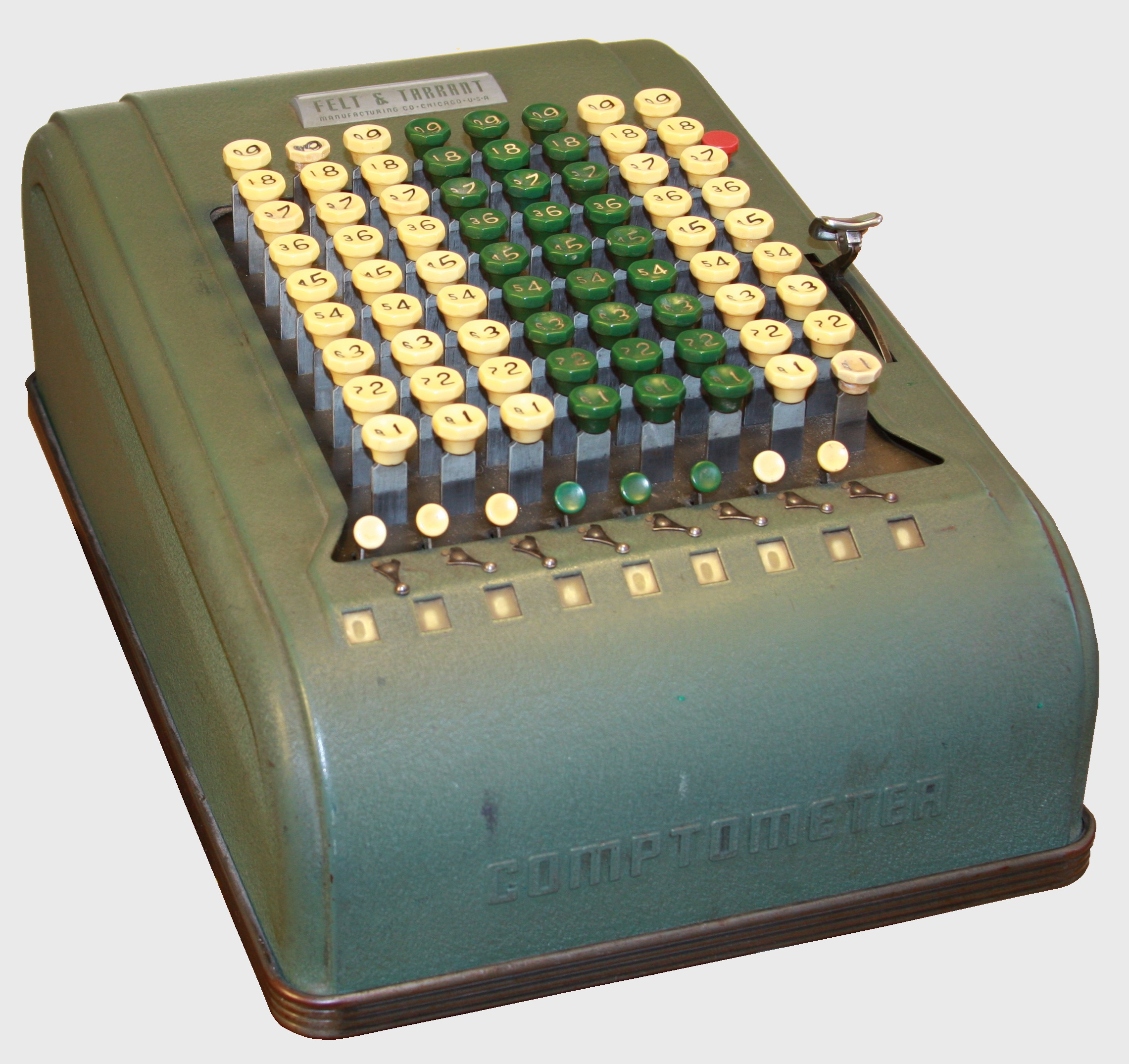 Comptometer model WM. Mechanical calculator produced by Felt & Tarrant Manufacturing Company during World War II.